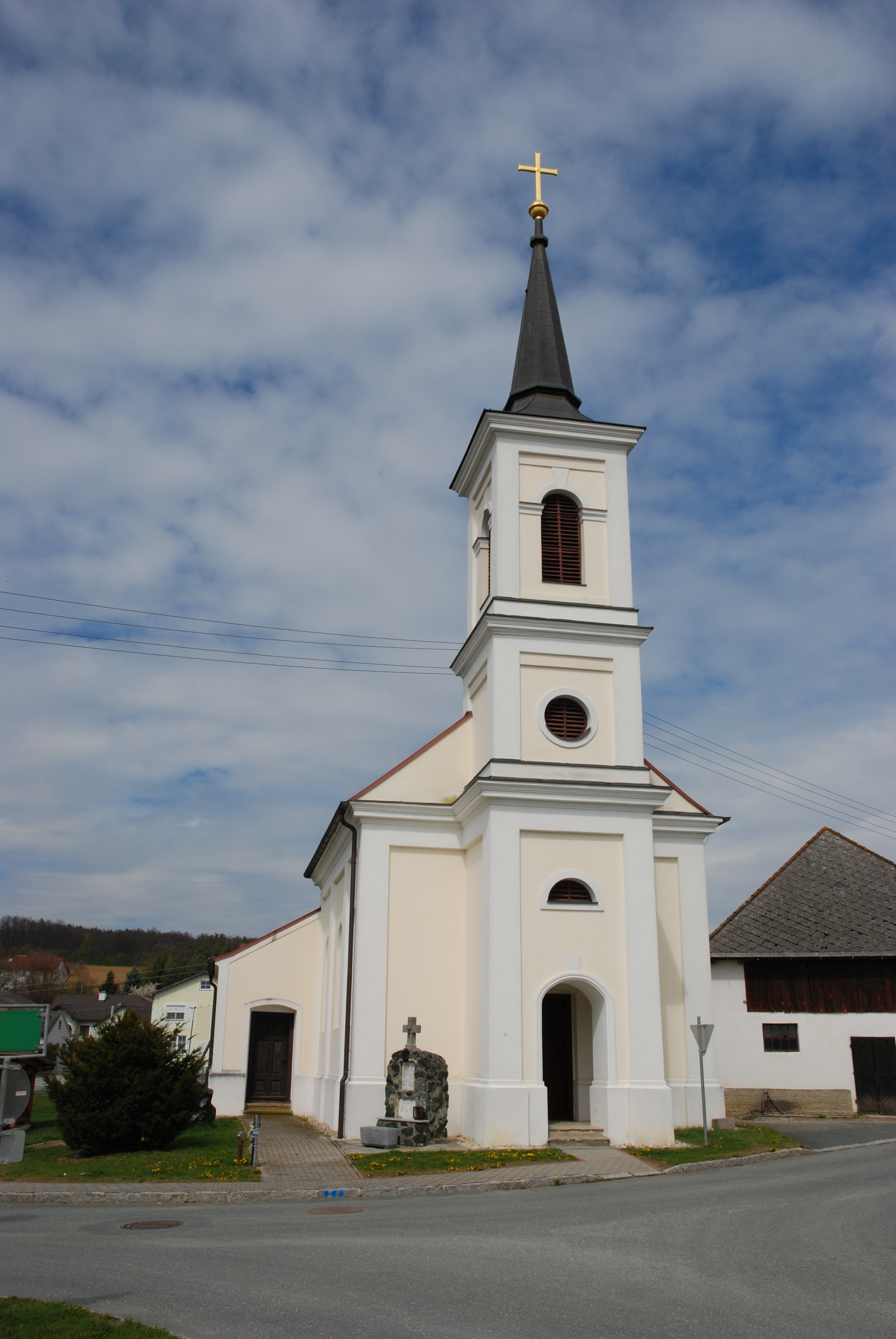 Kirche Rumpersdorf